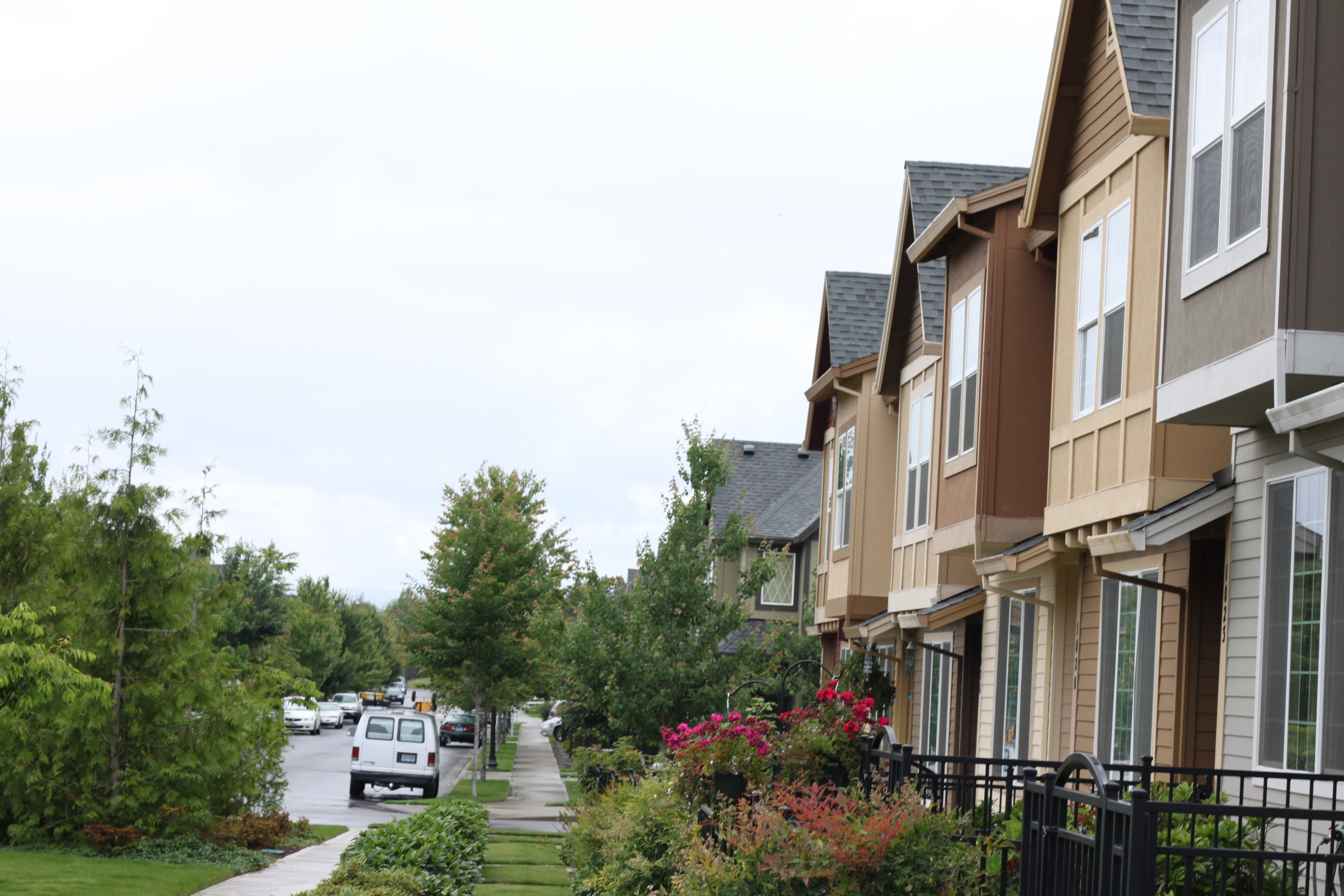 Former location of the Teufel's Farm Strip (airport) in Hillsboro, Oregon.